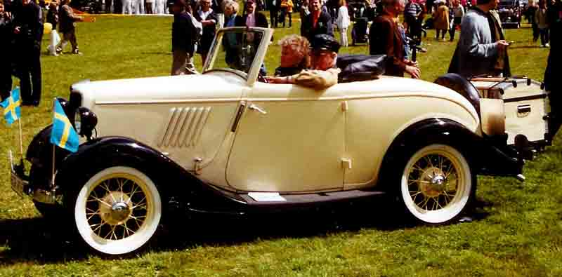 Ford Model Y Junior Sport Cabriolet 1935